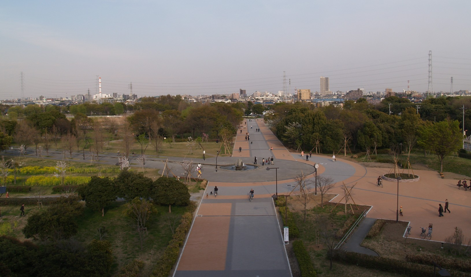 Toneri Park in Tokyo